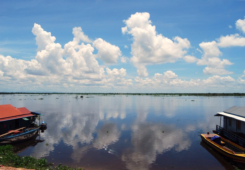 Tonle Sap